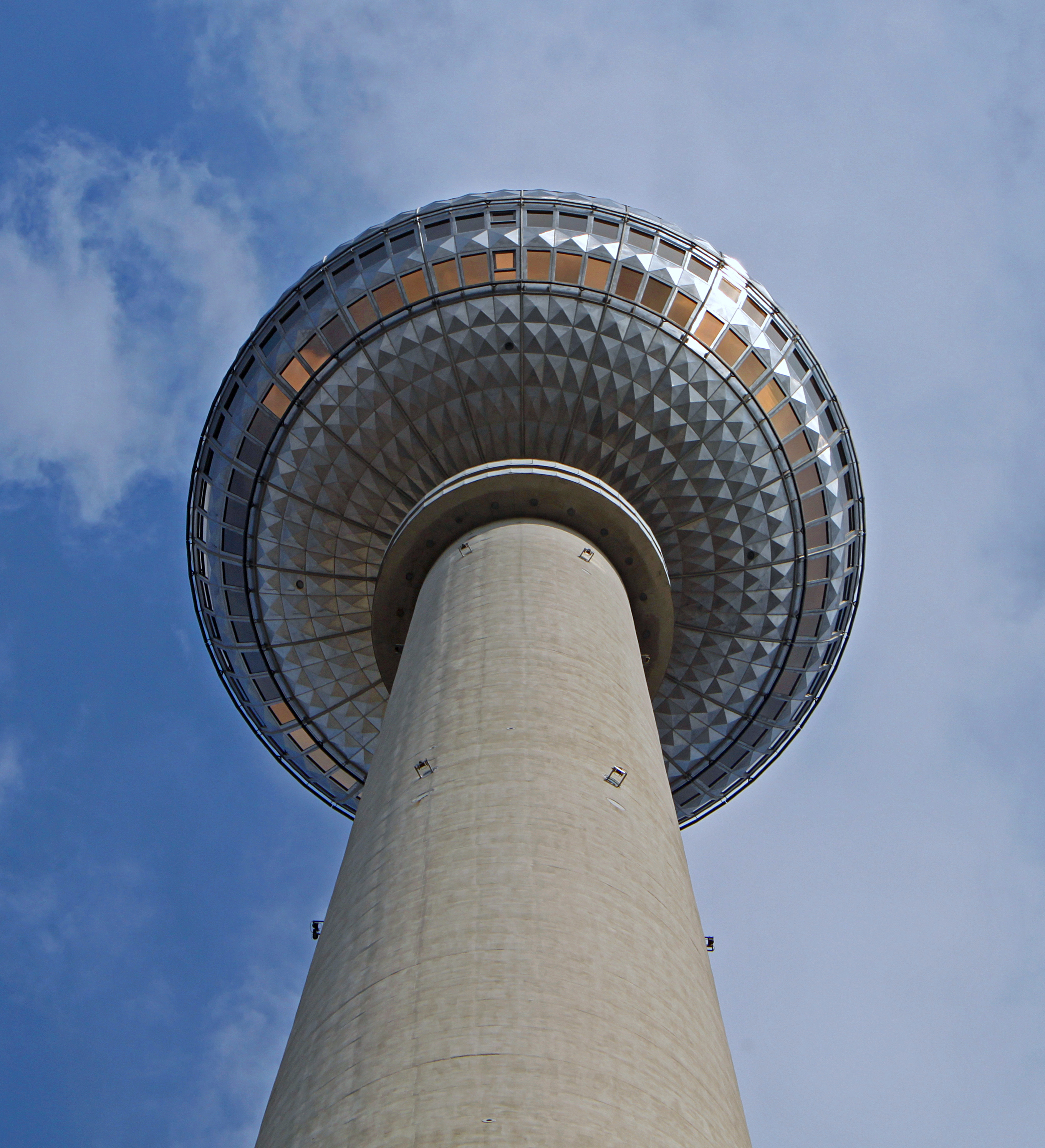 Berliner Fernsehturm at Berlin